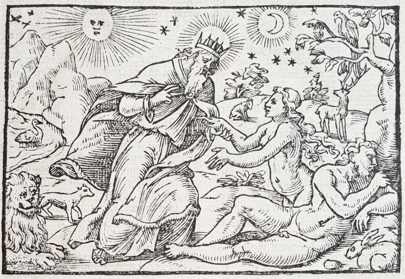 Creation of Eve, woodcut